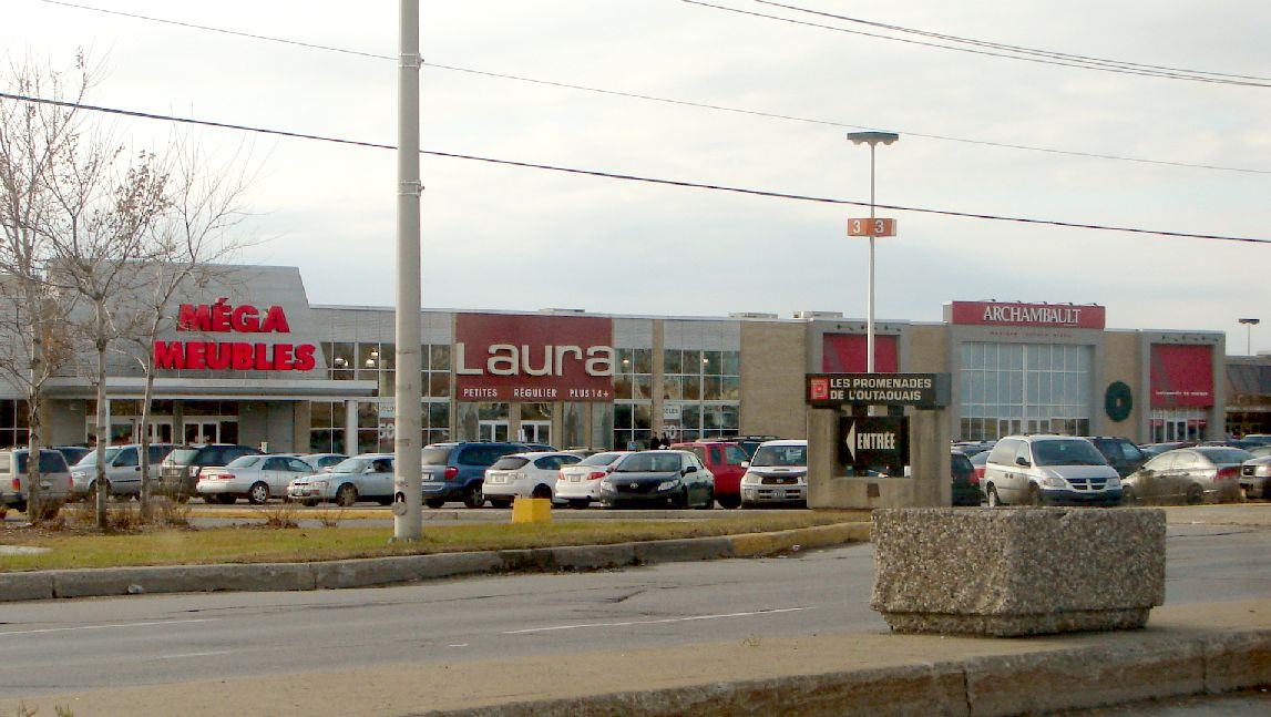 Les Promenades de l'Outaouais, Gatineau, Quebec, Canada